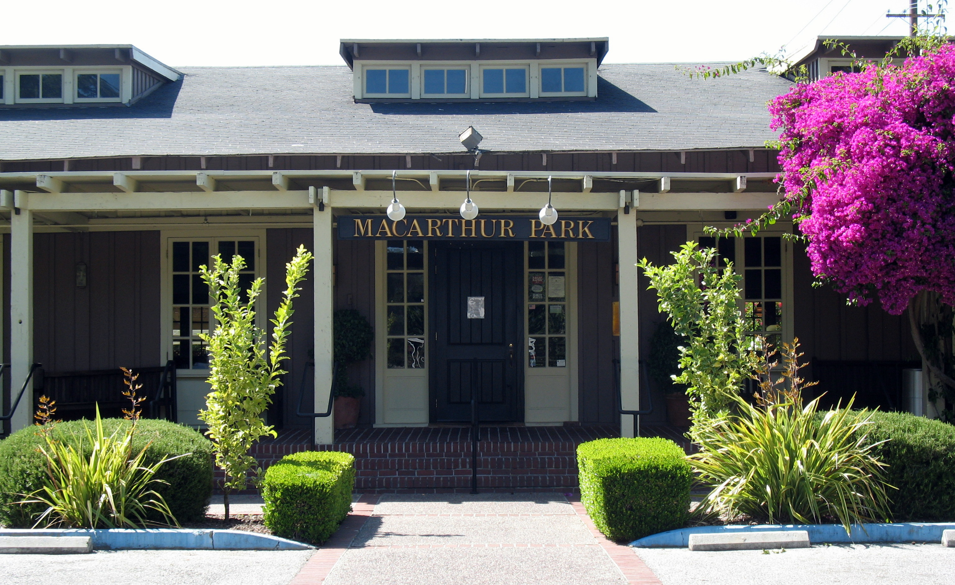 National Register of Historic Places listings in Santa Clara County, California Hostess House, University Ave. at El Camino Real, Palo Alto, CA